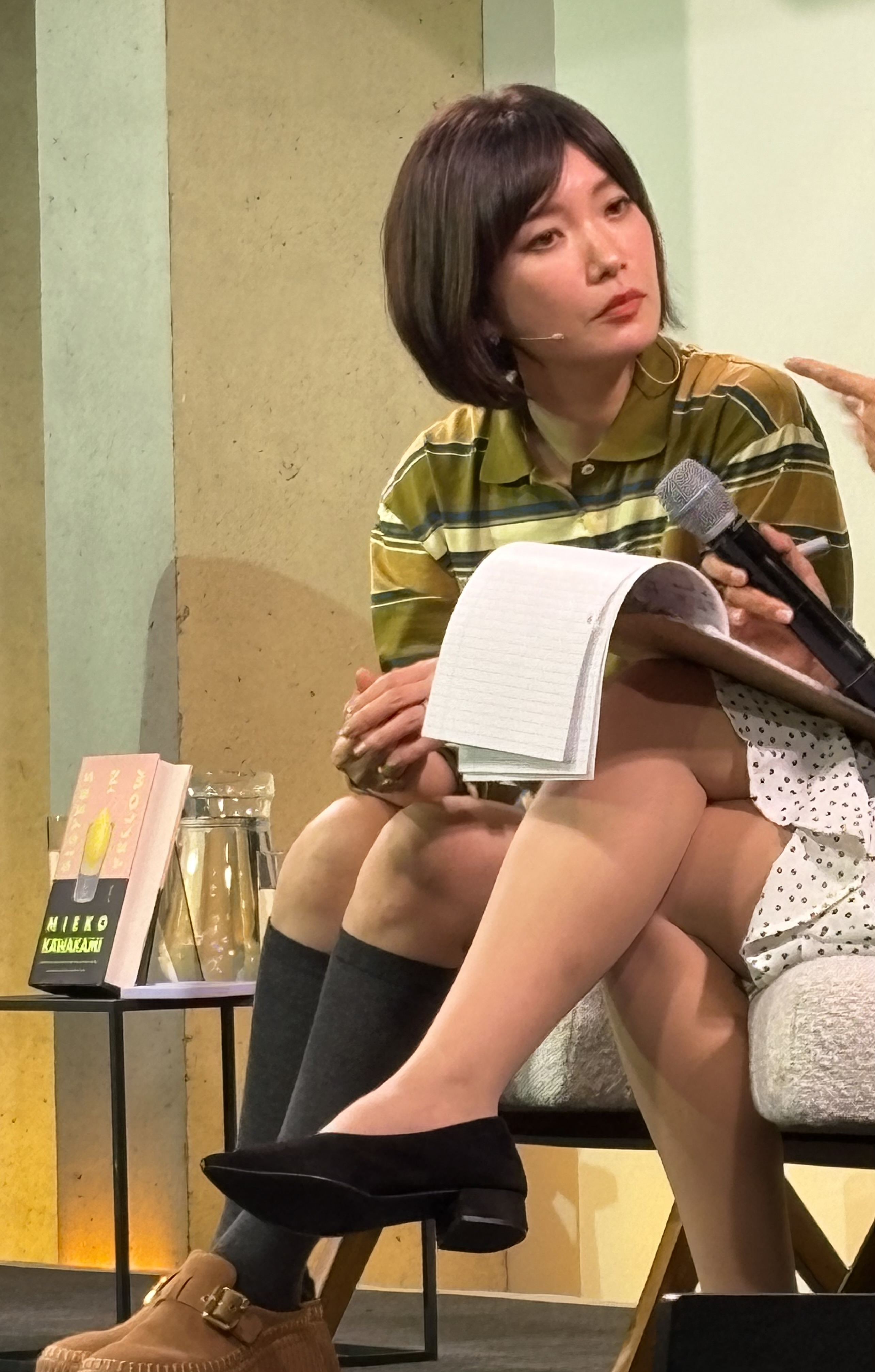 Mieko Kawakami in 2014, giving a lecture in Tokyo.